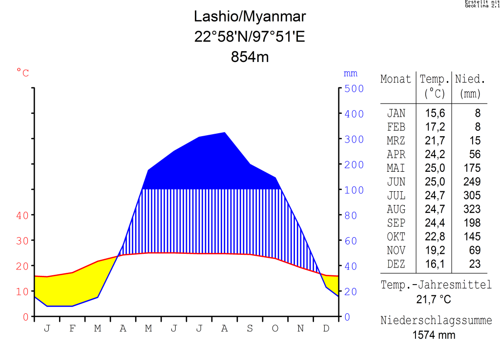 climate chart in the format by Walther and Lieth, metric, °Celsisus and millimeters, made with Geoklima 2.1